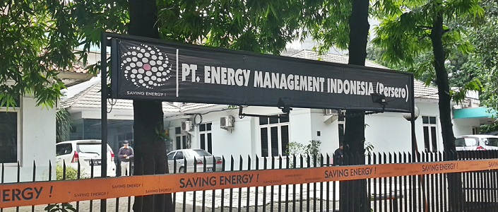 Kantor PT. EMI (Persero) di Jl. Wolter Monginsidi No. 6, Kebayoran Baru, Jakarta.